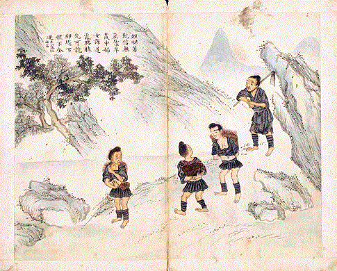 Three women wearing very short skirts and midriff-baring tops are seen collecting plants in the mountains while a man looks on. A Chinese-language poem in the upper left corner describes how the Duan Qun Miao (literally Short Skirt Miao) are named for their dress (sometimes described as miniskirts although this is a post-1960s term). The album was made during the Qing Dynasty (1644-1911), probably around 1900.